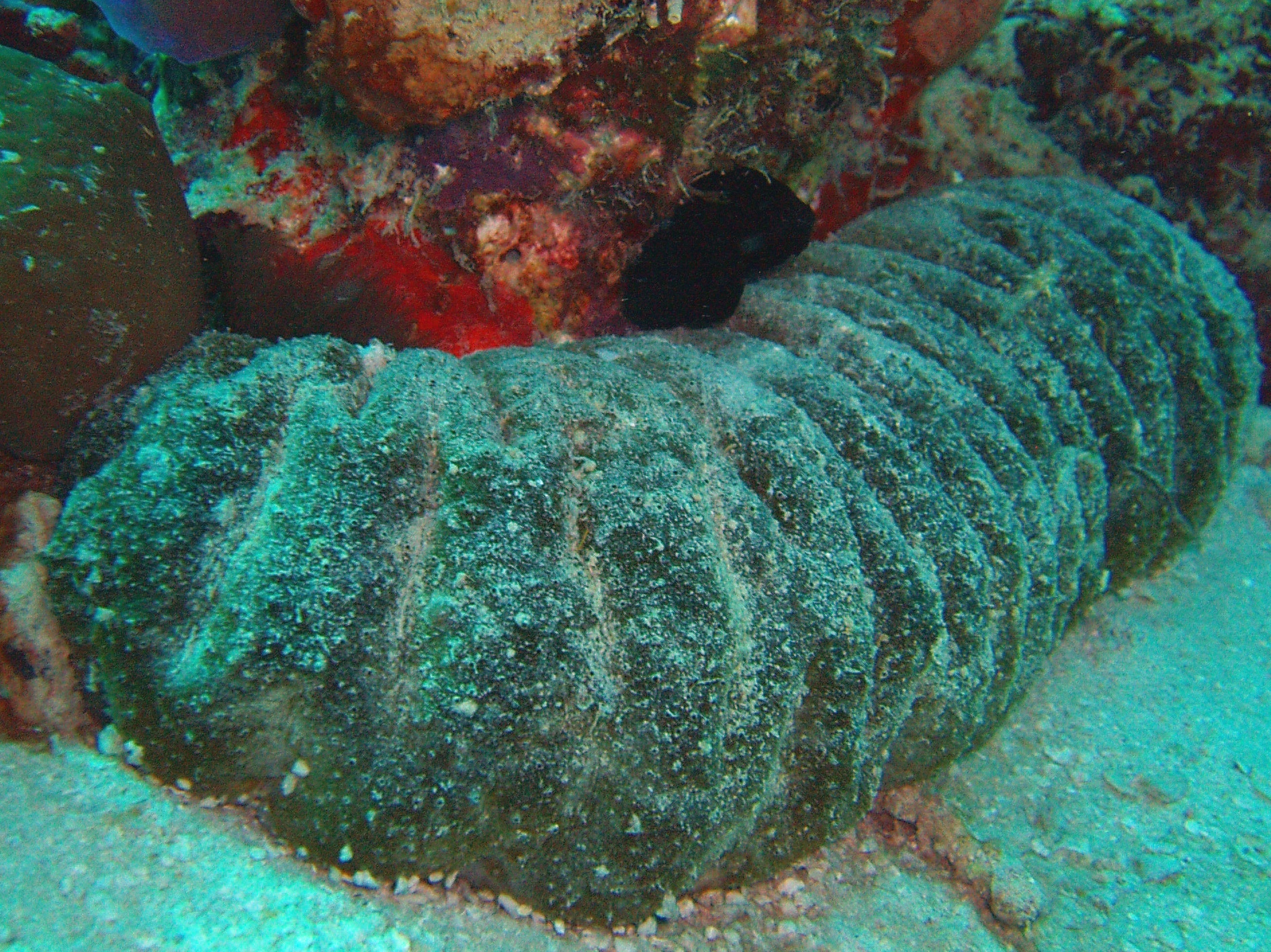 Donkey dung sea cucumber (Holothuria mexicana). This species of holothurian can attain lengths of 20 inches. U. S. Virgin Islands, Coki Beach, St. Thomas.